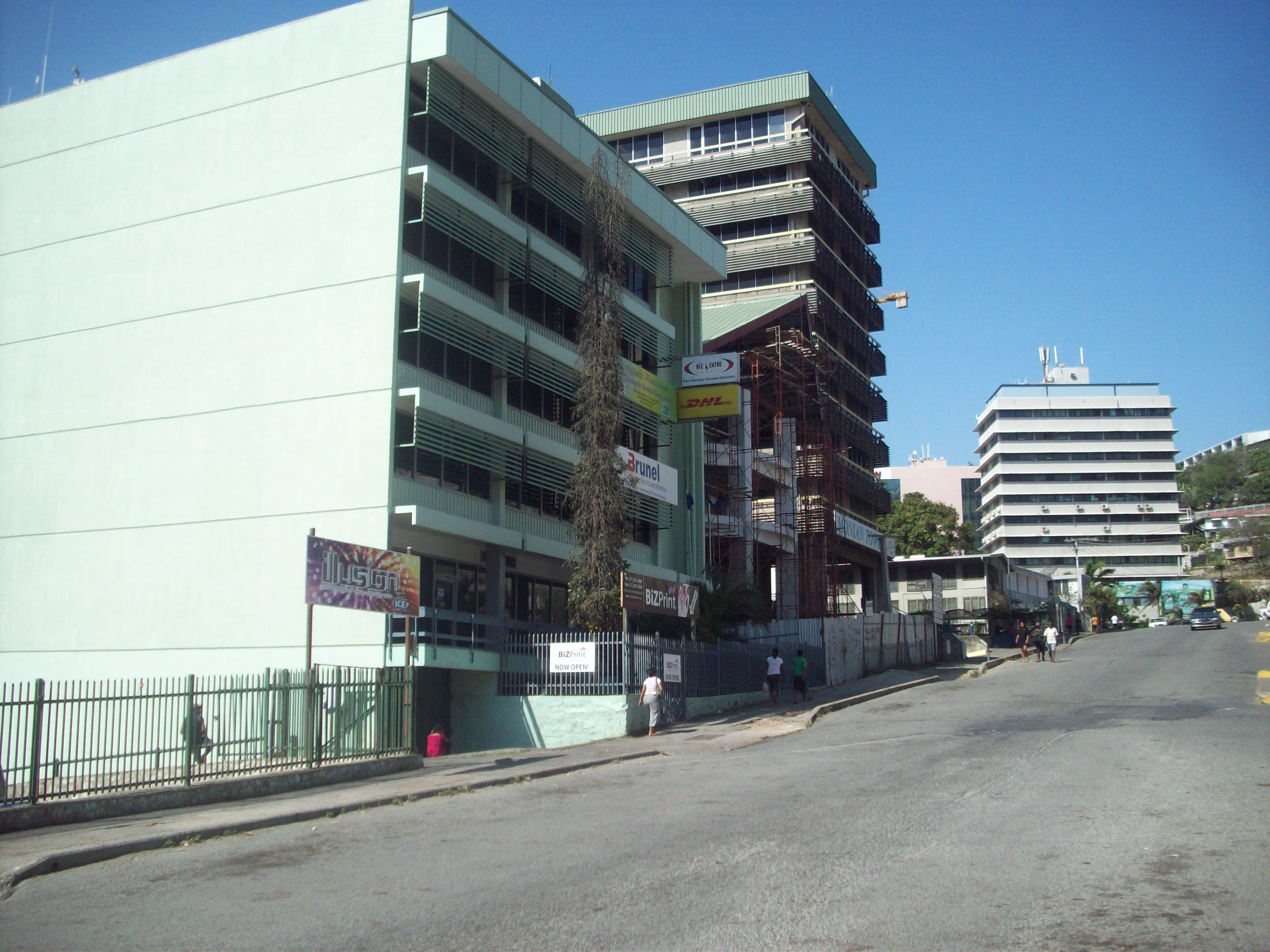 Site of POM downtown UC being redeveloped